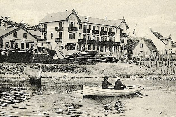 Sjovshoved Badehotel, the former Skovshoved Inn, in Skovshoved to the north of Copenhagen, Denmark